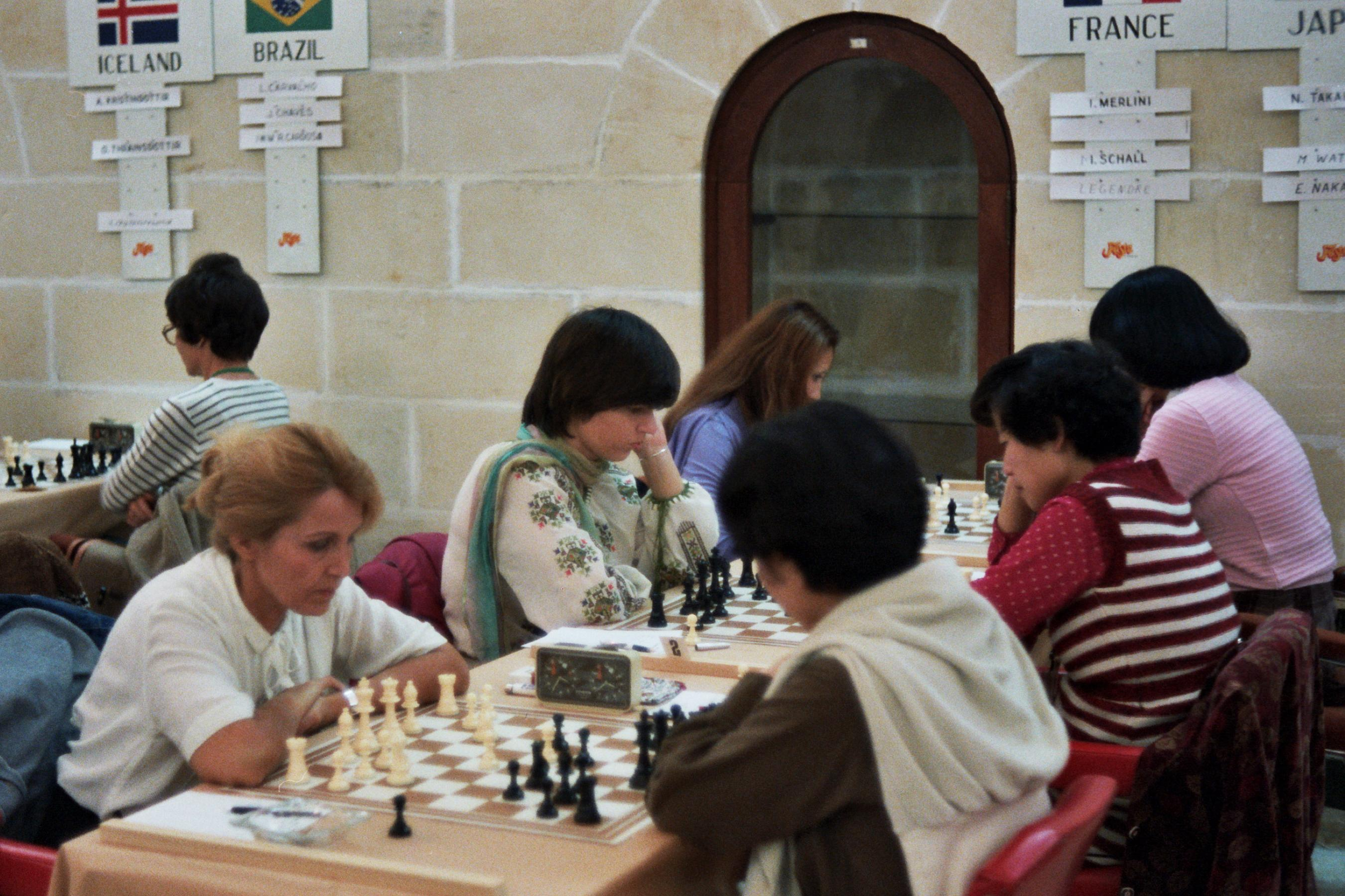 Milinka Merlini, France - Japan, Chess Olympiad 1980 in Valletta, Photographer Gerhard Hund.